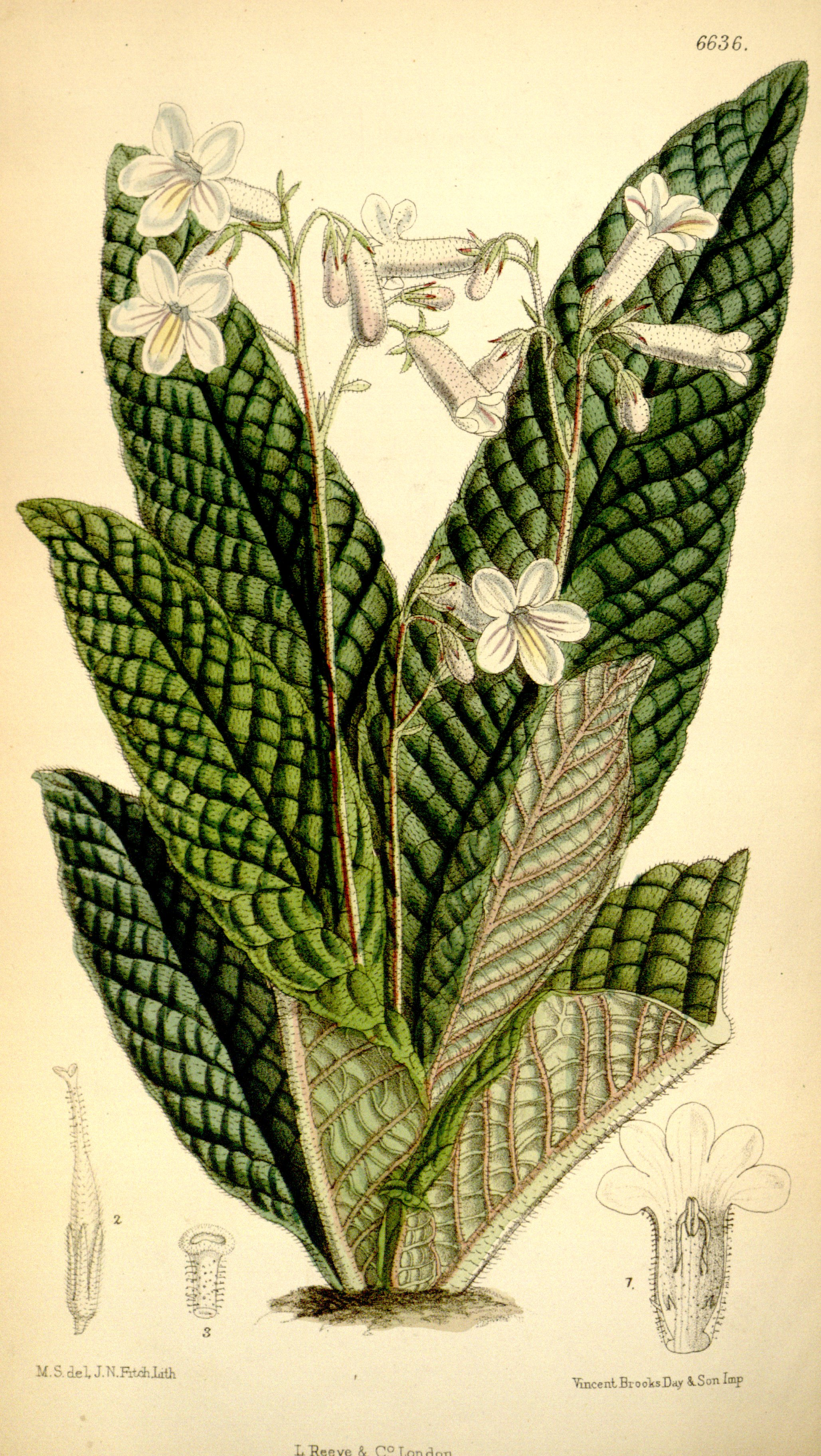 Streptocarpus parviflorus, Bot. Mag. 108: t. 6636. 1882.